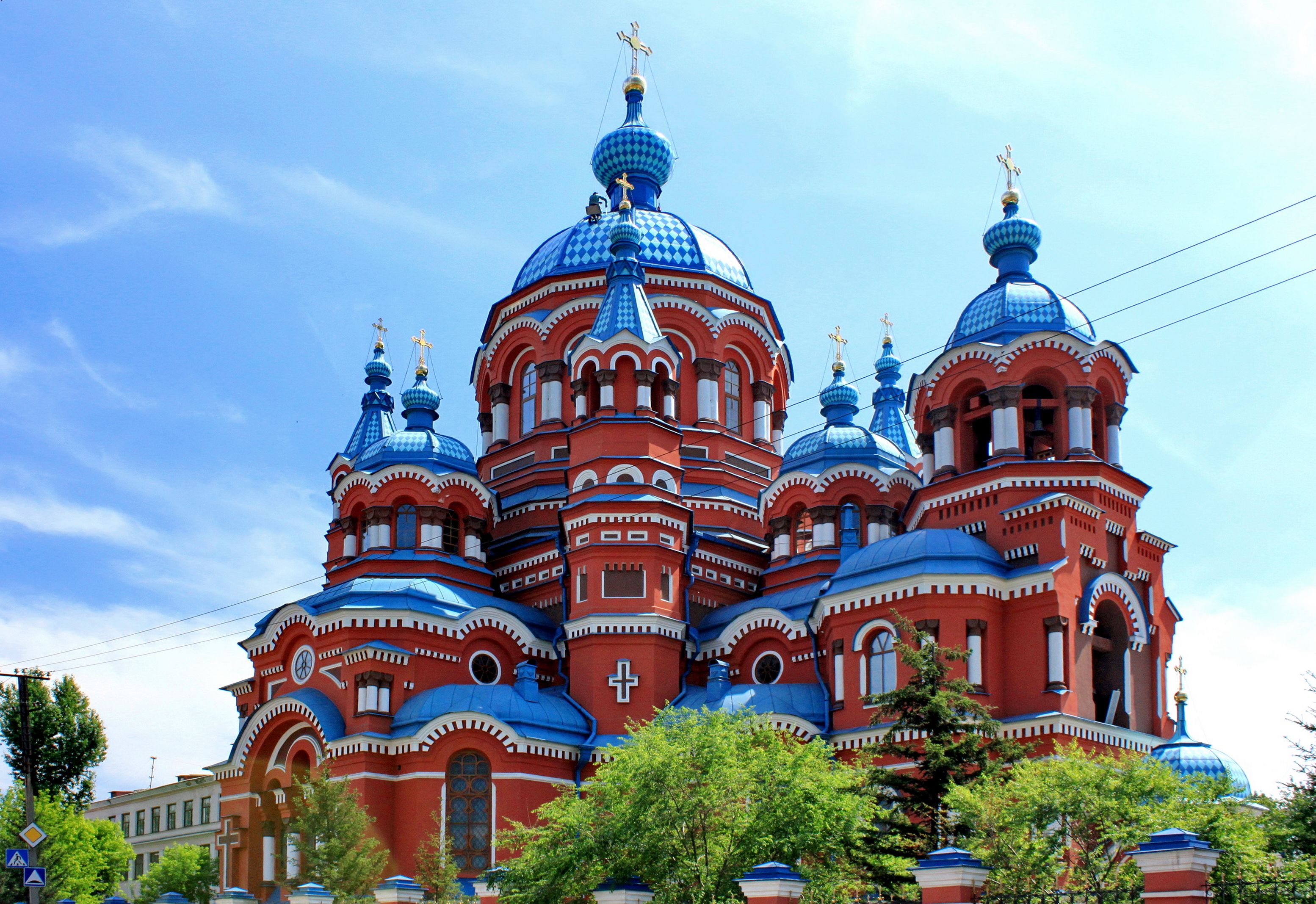 Our Lady of Kazan Church. Irkutsk, Russia.